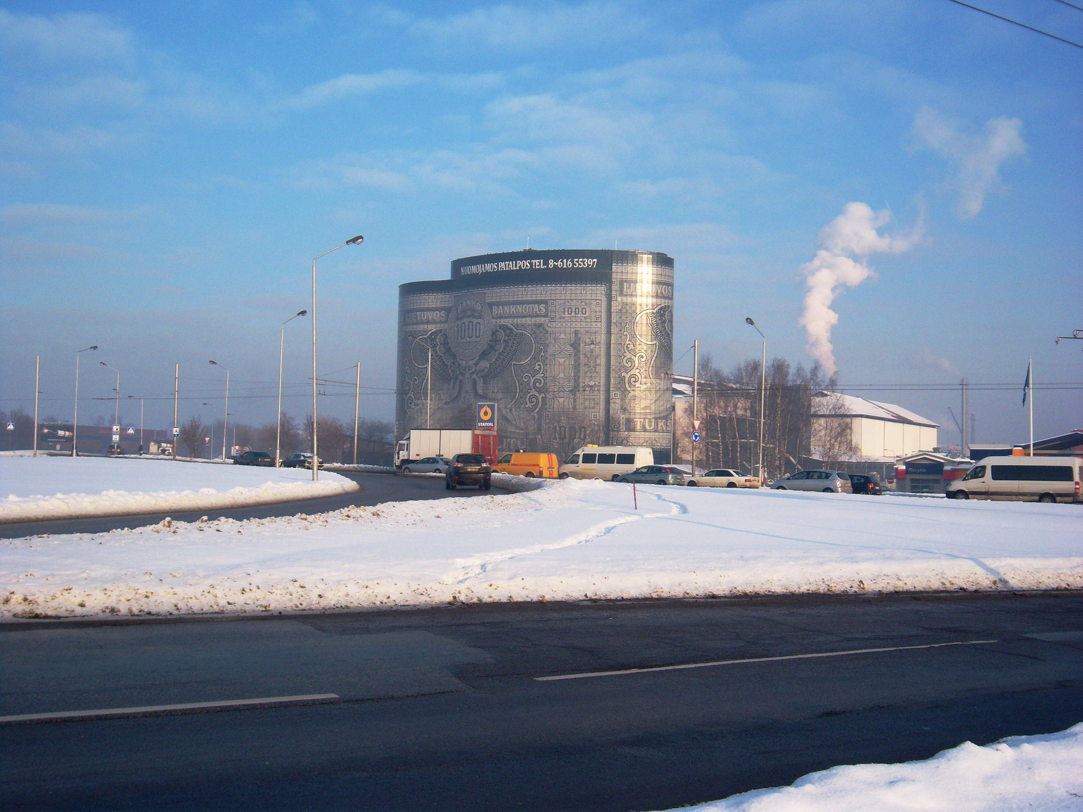 Office center "1000" (Banknote building), Kaunas, Lithuania